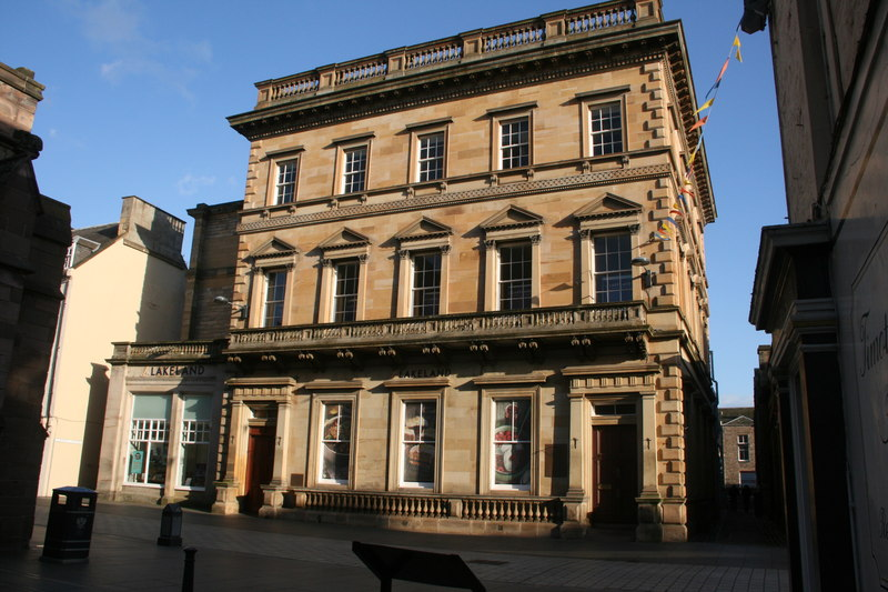 Former bank building on St John Street